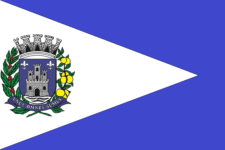 Flag of Tabapuã, state of São Paulo, Brazil. This work is in the public domain in Brazil for one of the following reasons: It is a work published or commissioned by a Brazilian government (federal, state, or municipal) prior to 1983.(Law 3071/1916, art. 662; Law 5988/1973, art. 46; Law 9610/1998, art. 115) It is the text of a treaty, convention, law, decree, regulation, judicial decision, or other official enactment.(Law 9610/1998, art. 8) This image shows a flag, a coat of arms, a seal or some other official insignia. The use of such symbols is restricted in many countries. These restrictions are independent of the copyright status.